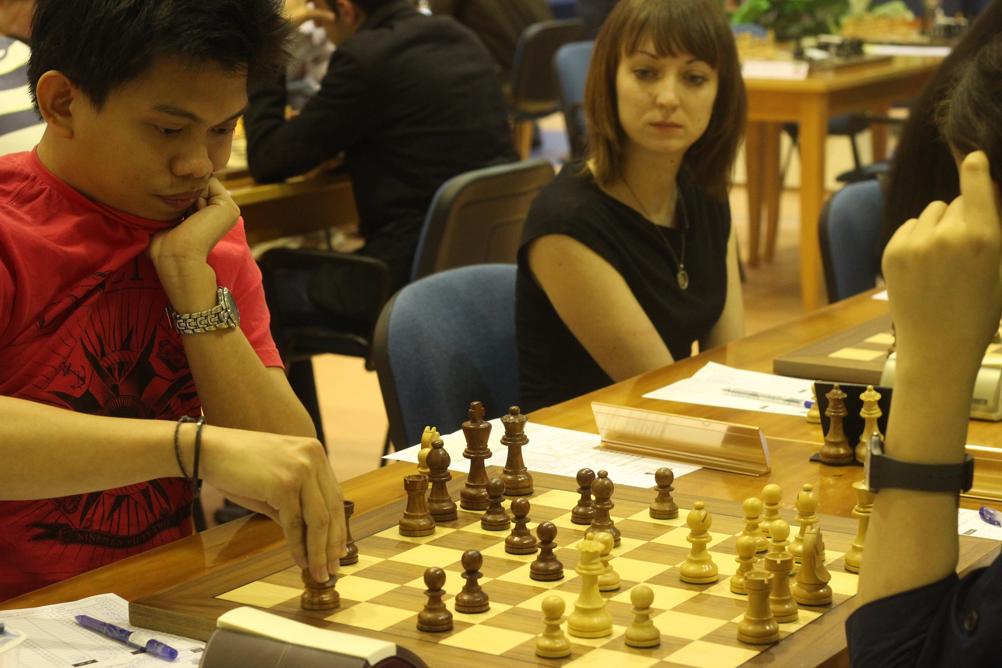 Kim Steven Yap makes a move in a game at the Dubai Open Chess Tournament 2013. Woman Grandmaster Elisabeth Pähtz looks on.